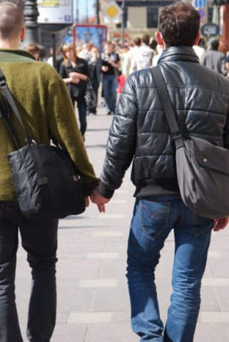 Gays